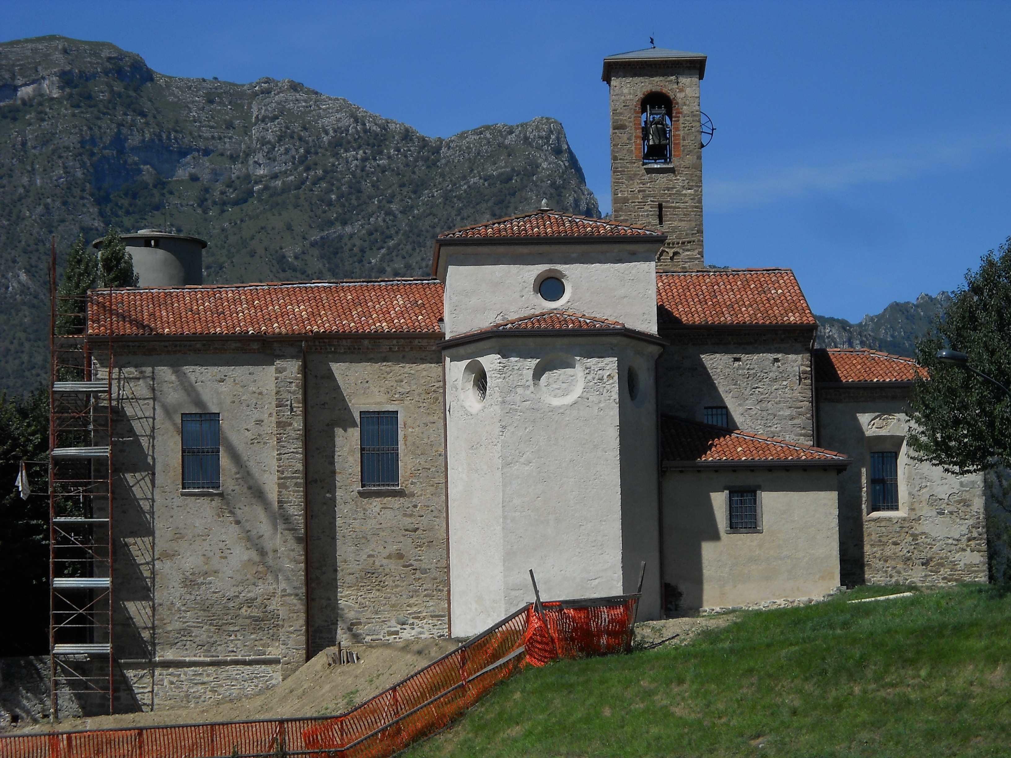 Church of San Giorgio, Annone di Brianza, Lecco, Italy